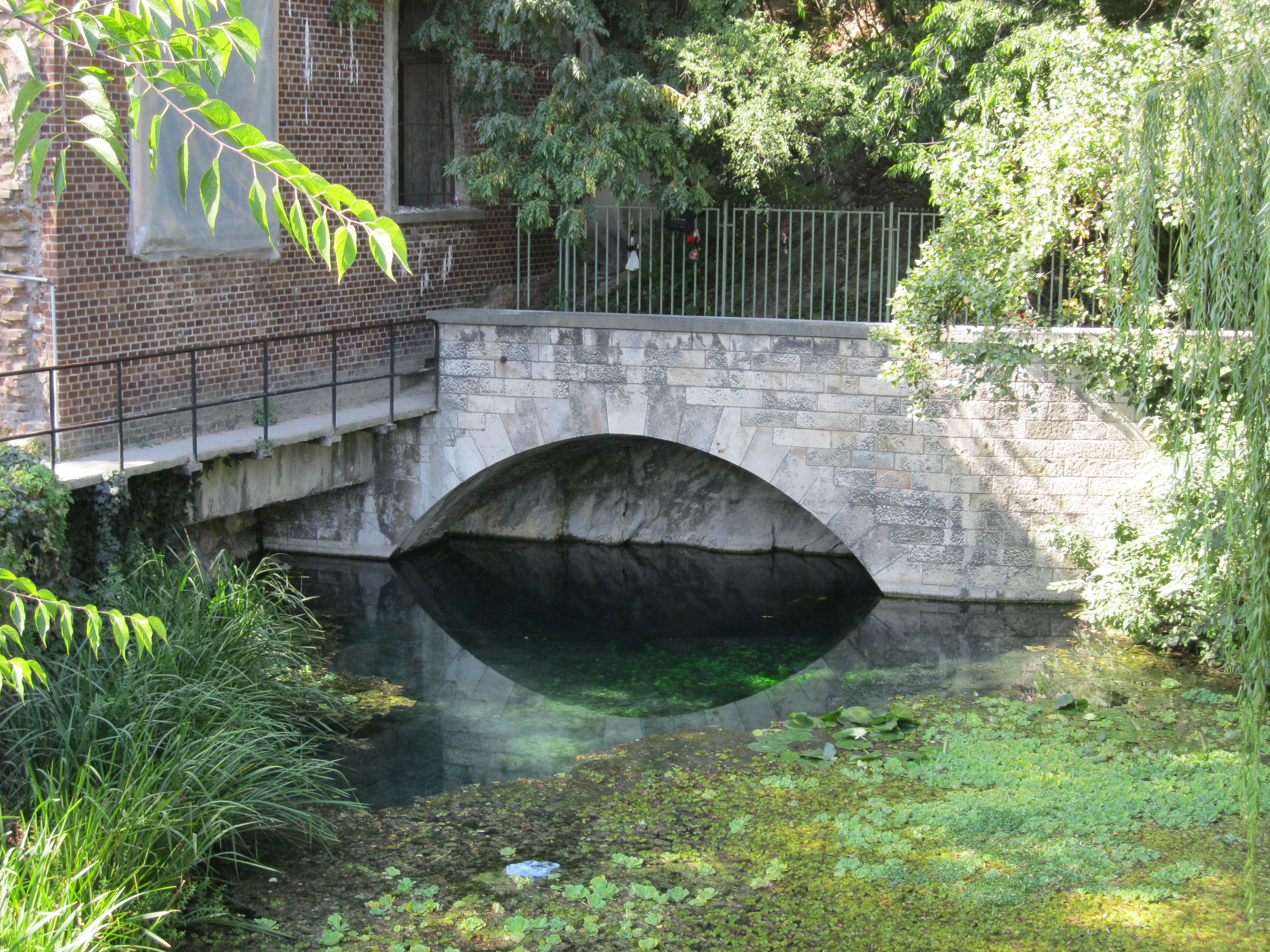 Lower entrance of the Molnár János Cave, Hungary, Budapest District II